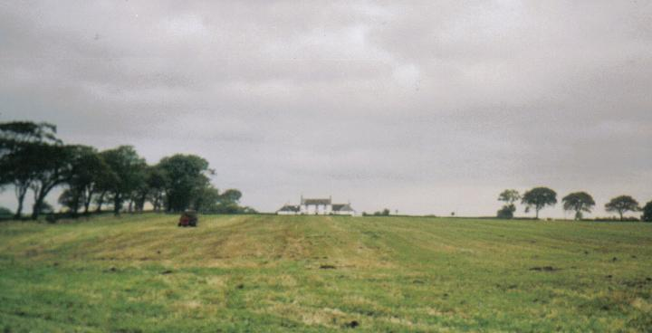 Overtoun Farm near Cunninghamhead in Ayrshire. This view taken in 2006 from the Capringstone Burn bridge near to the old Overtoun Miner's Row and school.